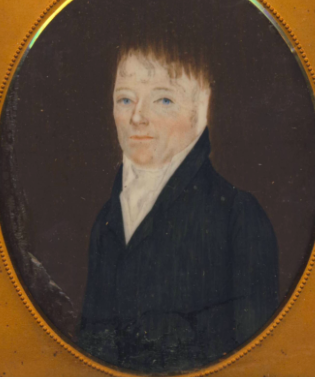 Jonathan Prescott (1725-1807), Chester, Nova Scotia; Jonathan built a large house in Chester, Lunenburg County Nova Scotia called "Maroon Hall". French prisoners of war were housed at this house and painted portraits of John and his wife Ann.